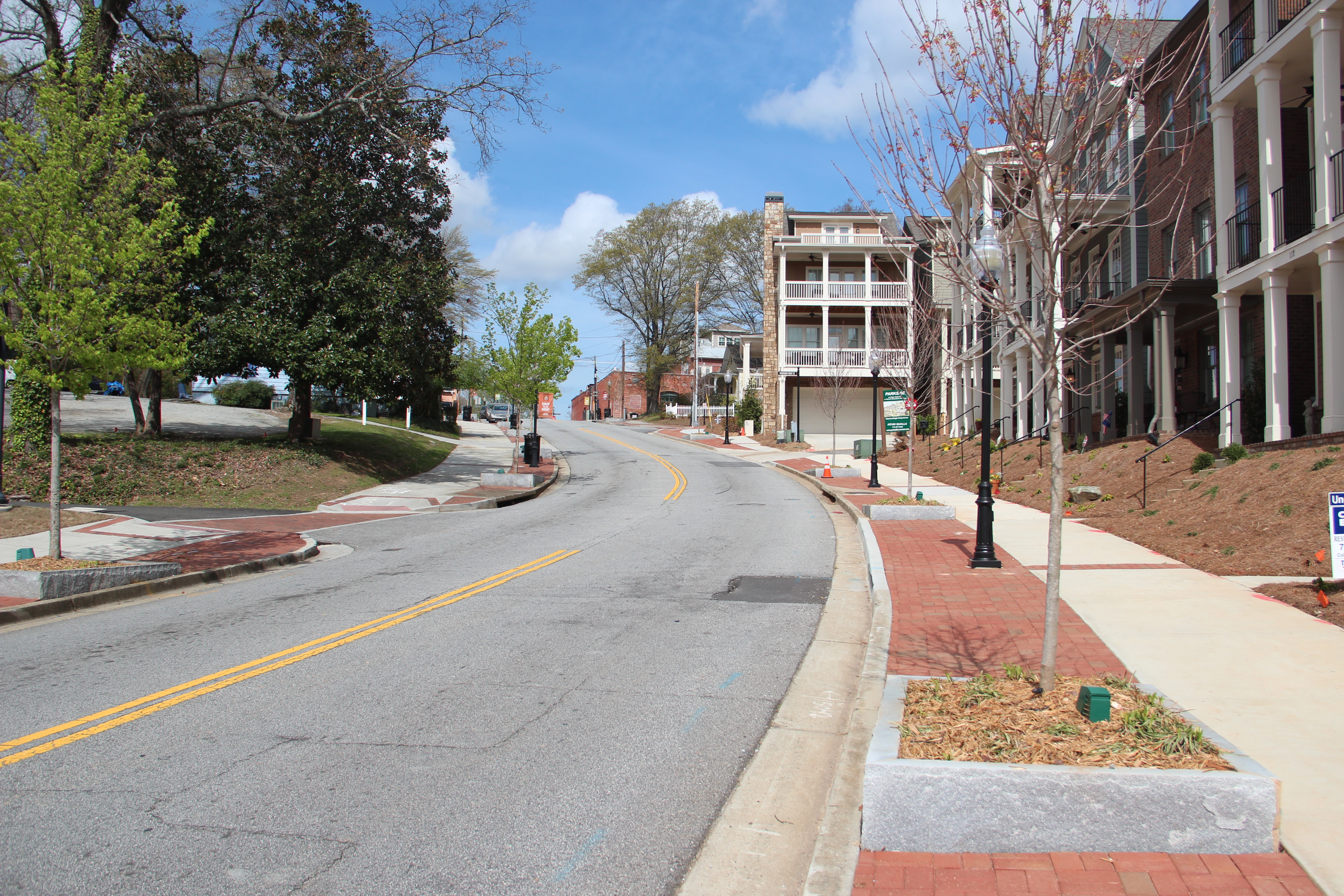 Holcomb Bridge Road, Norcross